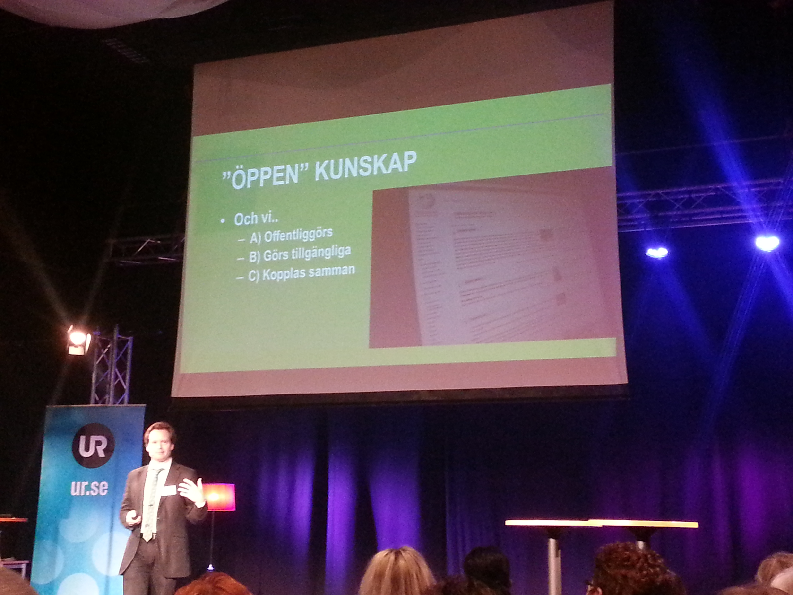 Саха тыла: Seminar at the Educational Radio in Sweden (UR) about free knowledge. Prof. Mikael Wiberg.